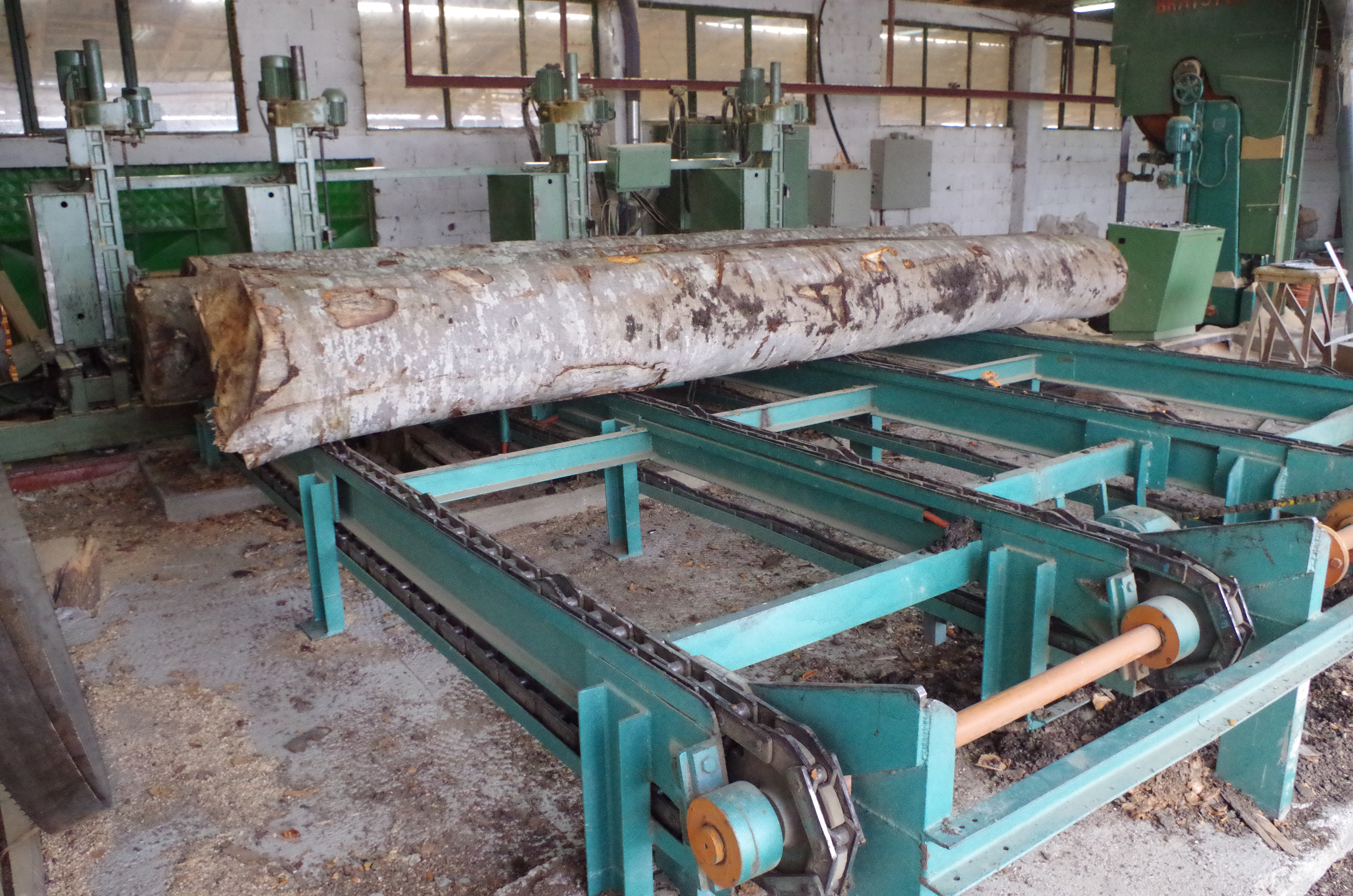 Wood Industry plant of the "Gama Dizajn" Sawmill in village of Petralinci near Strumica, Macedonia